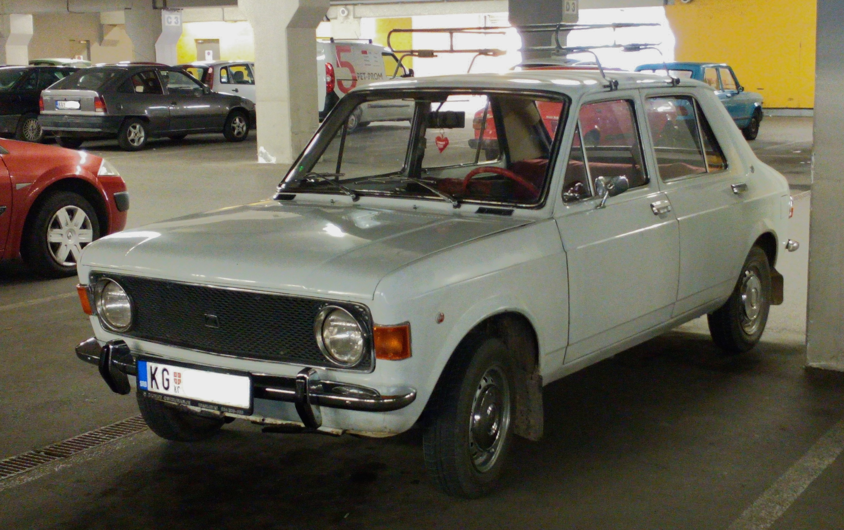 The old Zastava 101 in Kragujevac, Serbia, its hometown